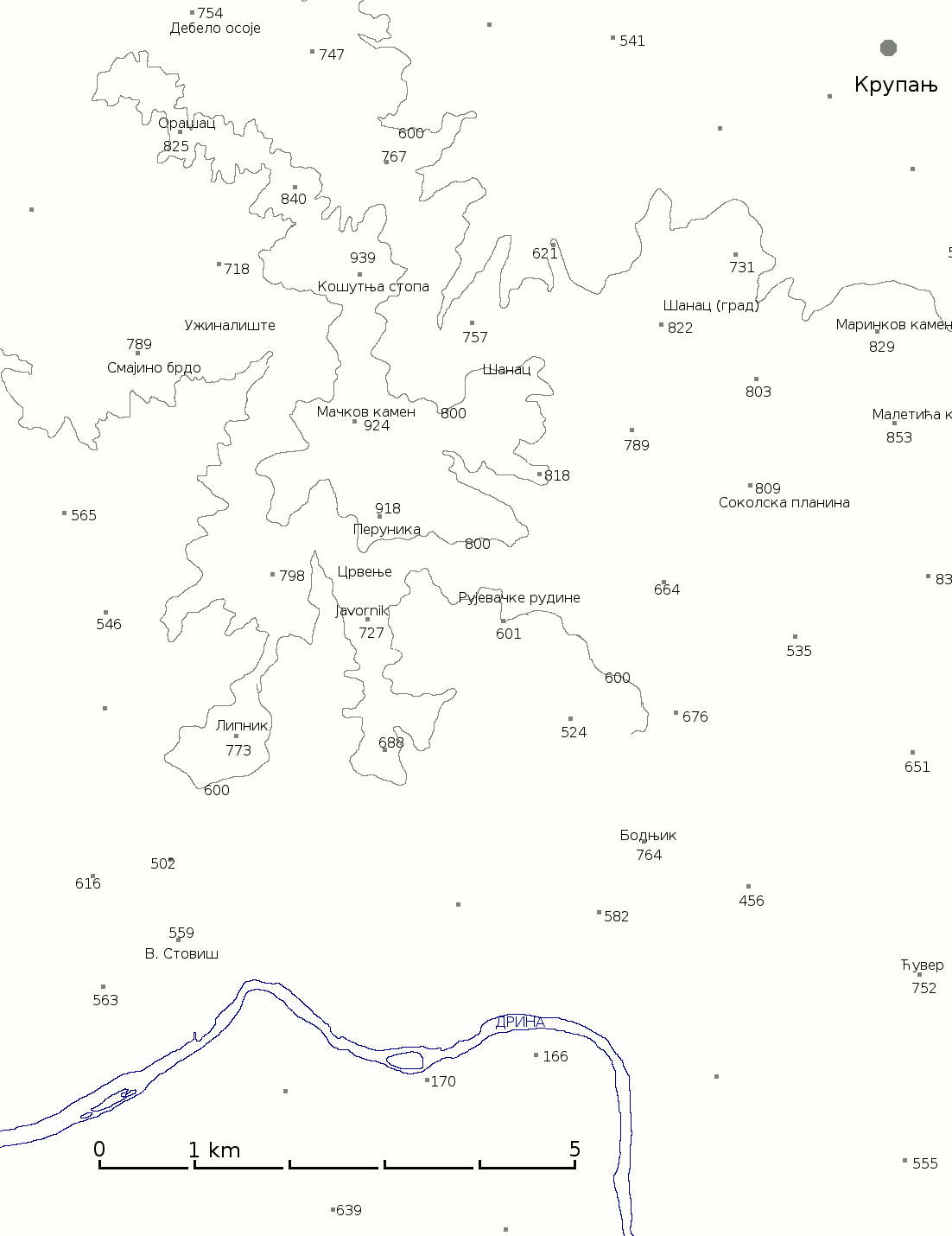 Map shows area of the battle for Mackov kamen, Serbia, First World War, September 1914.